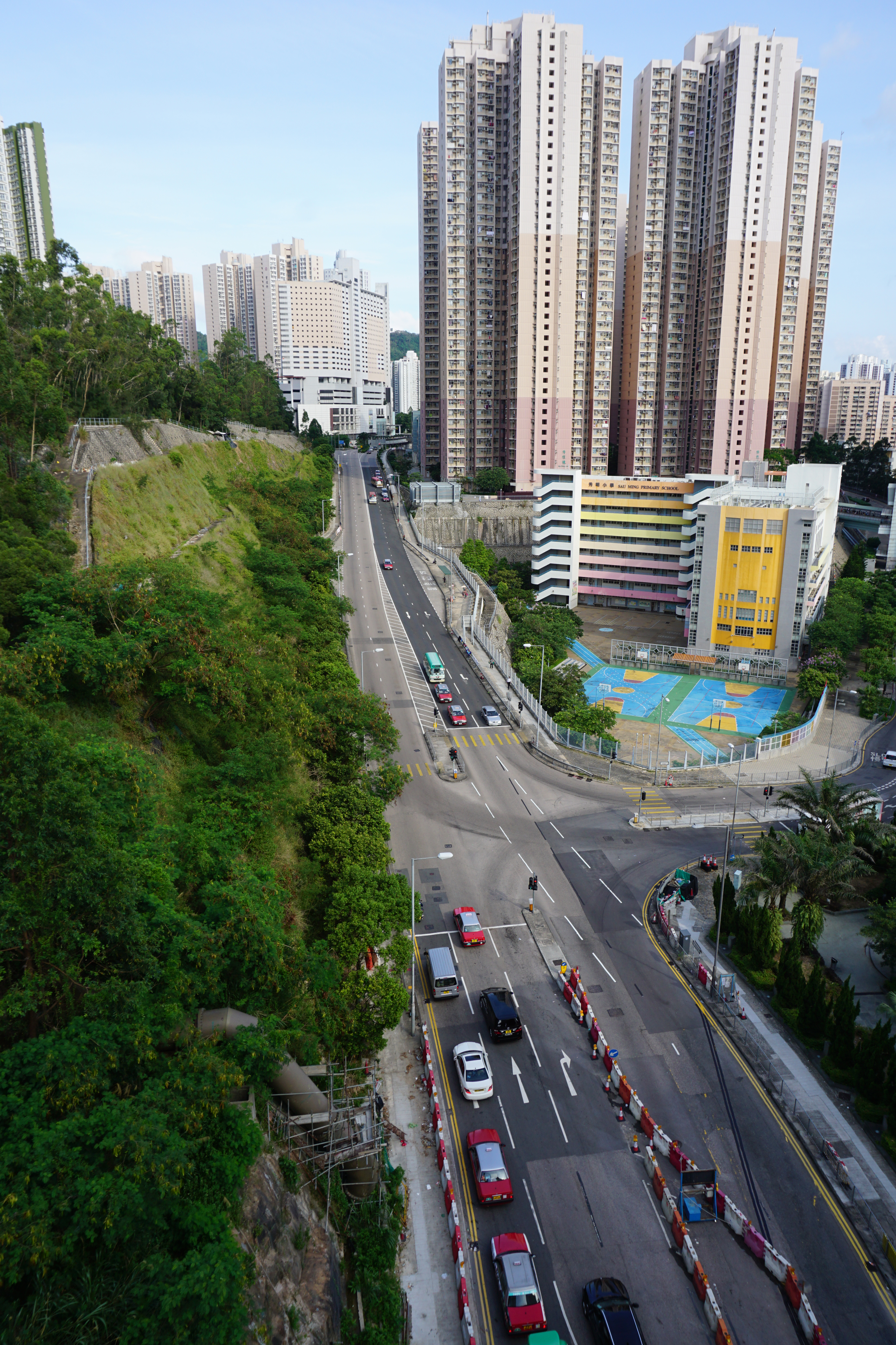 Sau Mau Ping Road in Sau Mau Ping, Hong Kong.